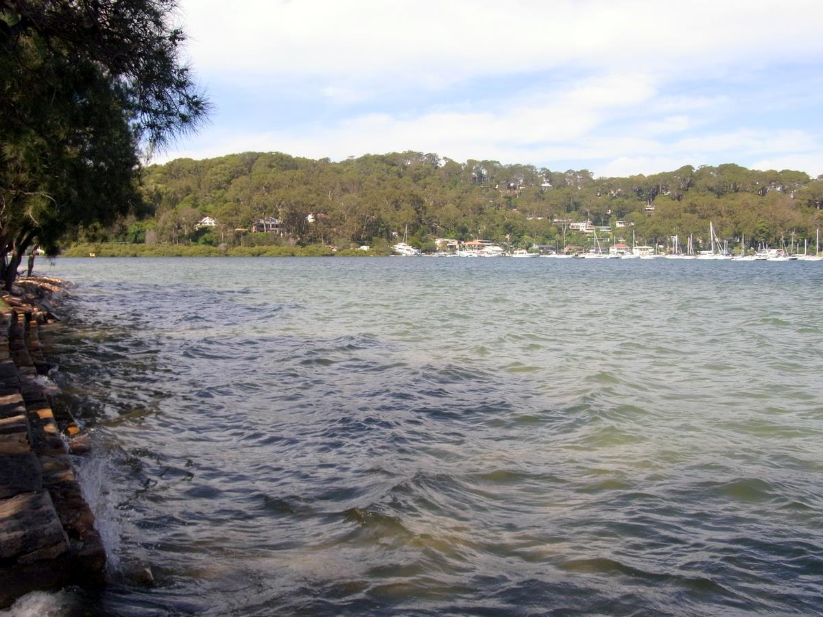 Careel Bay, NSW, Australia